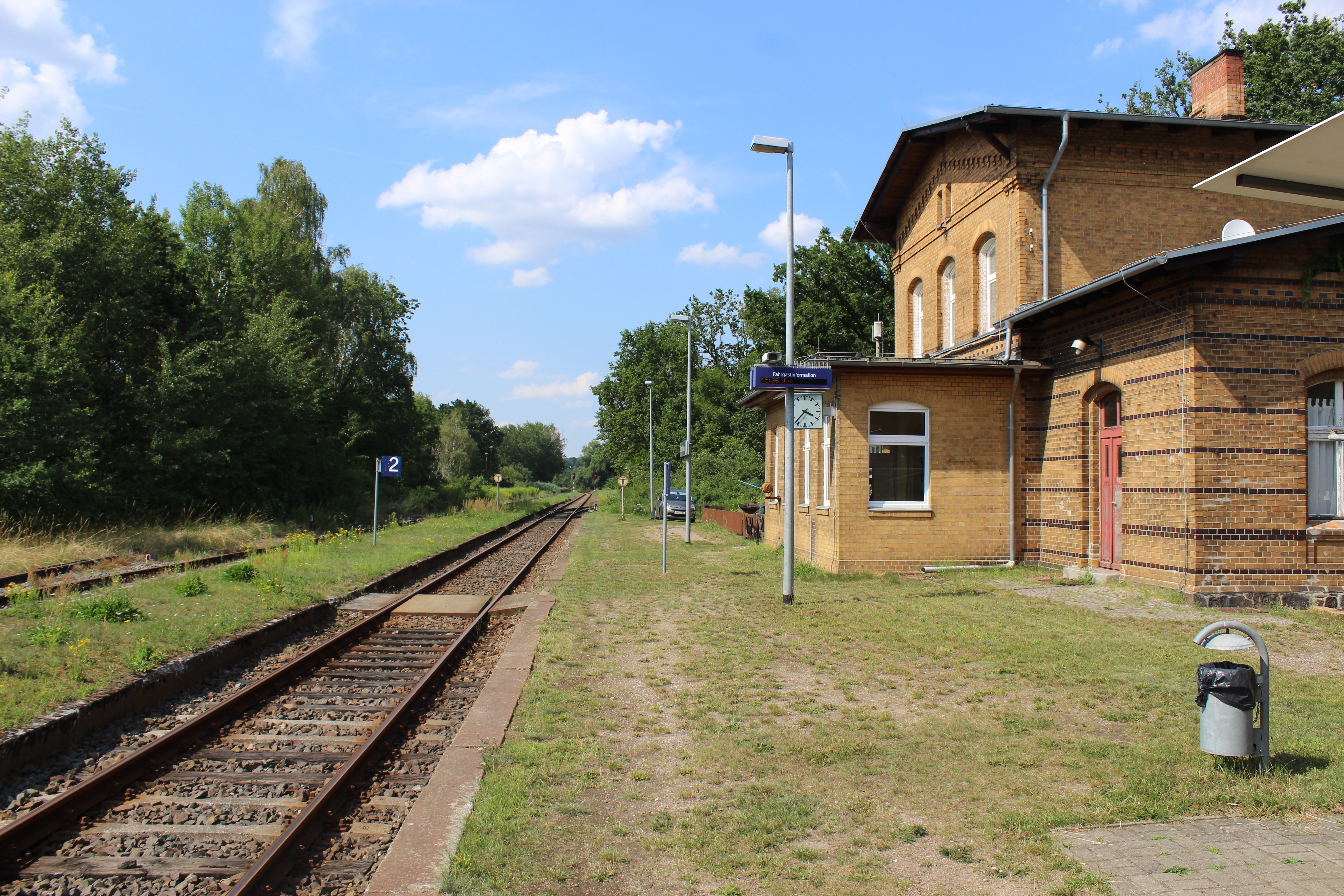 train station Blumenthal (Mark)